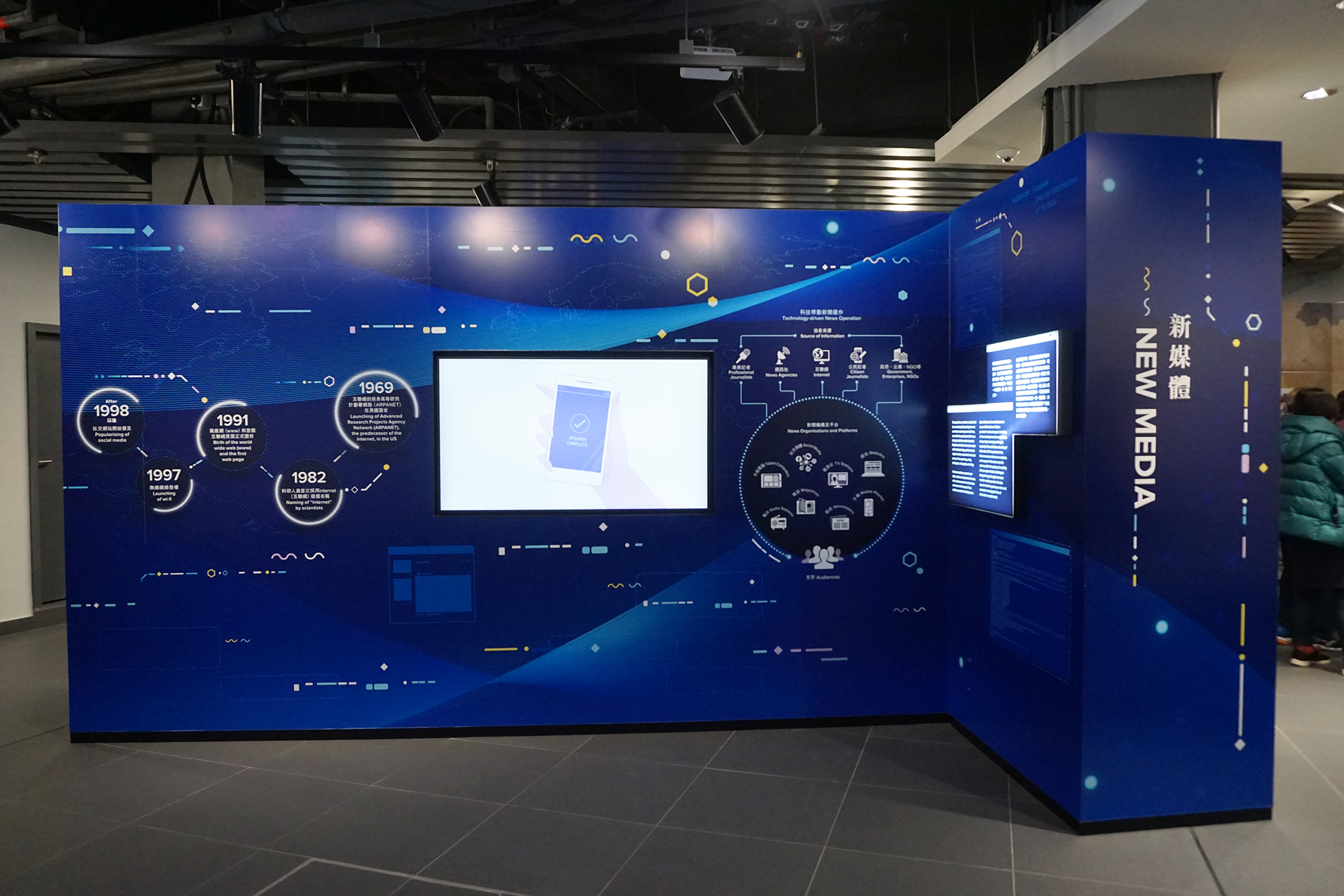 Hong Kong News-Expo in Central, Hong Kong.